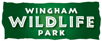 Wingham Wildlife Park logo